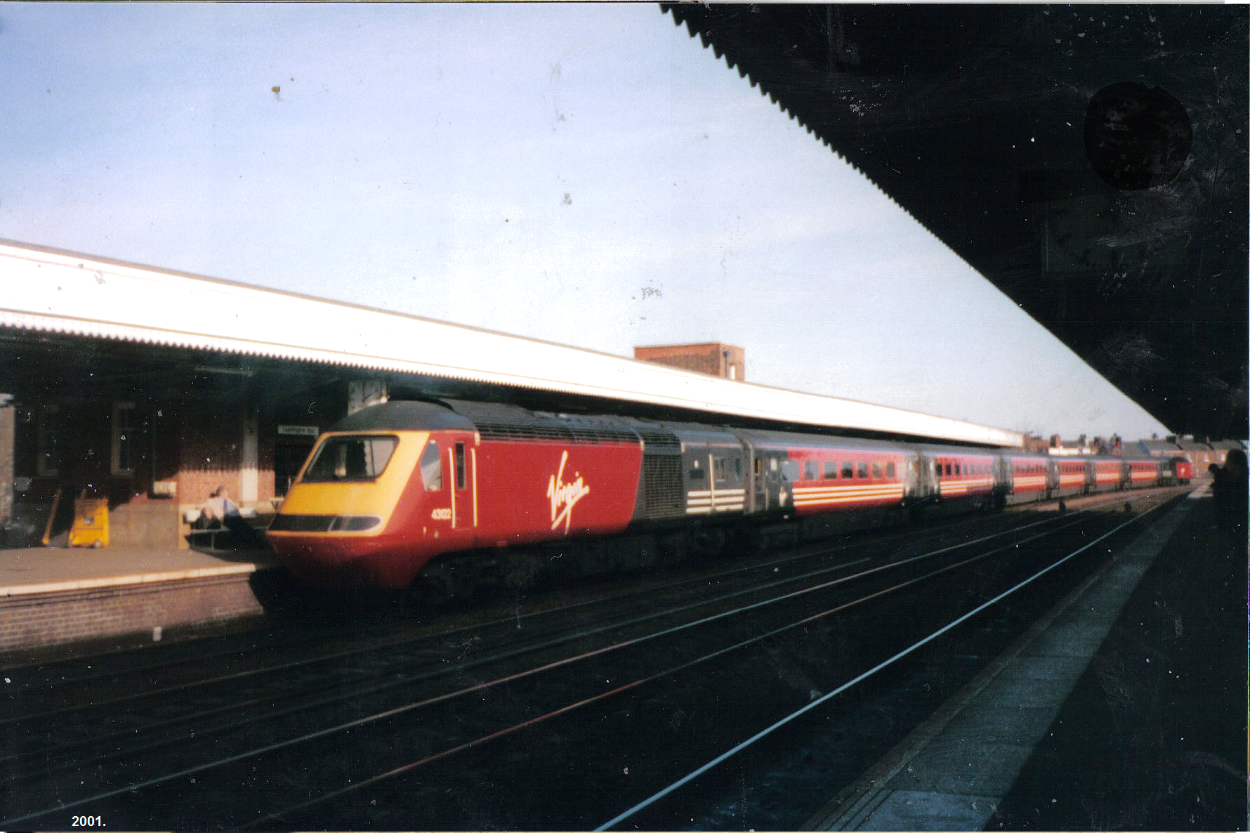 . I here by release it in to the public domain.